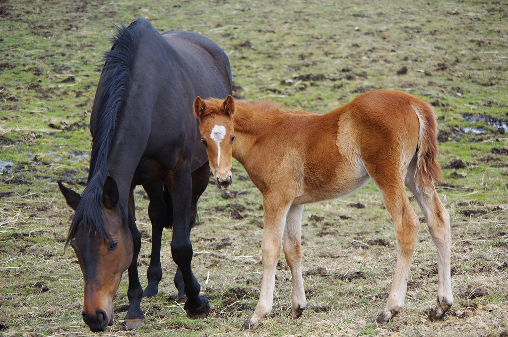 Broodmare and Foal （Thoroughbred)